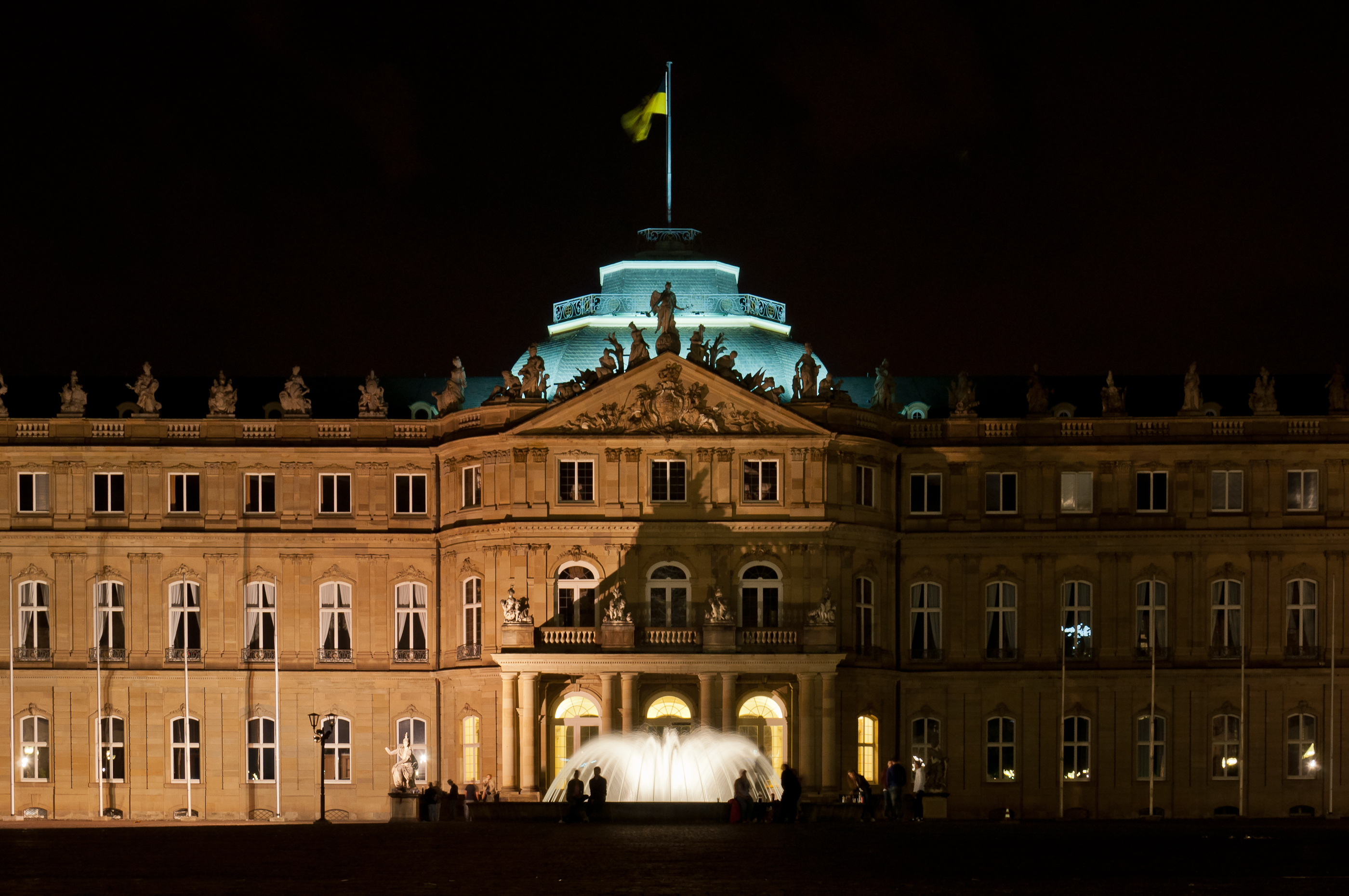 The New Palace in Stuttgart, Germany.